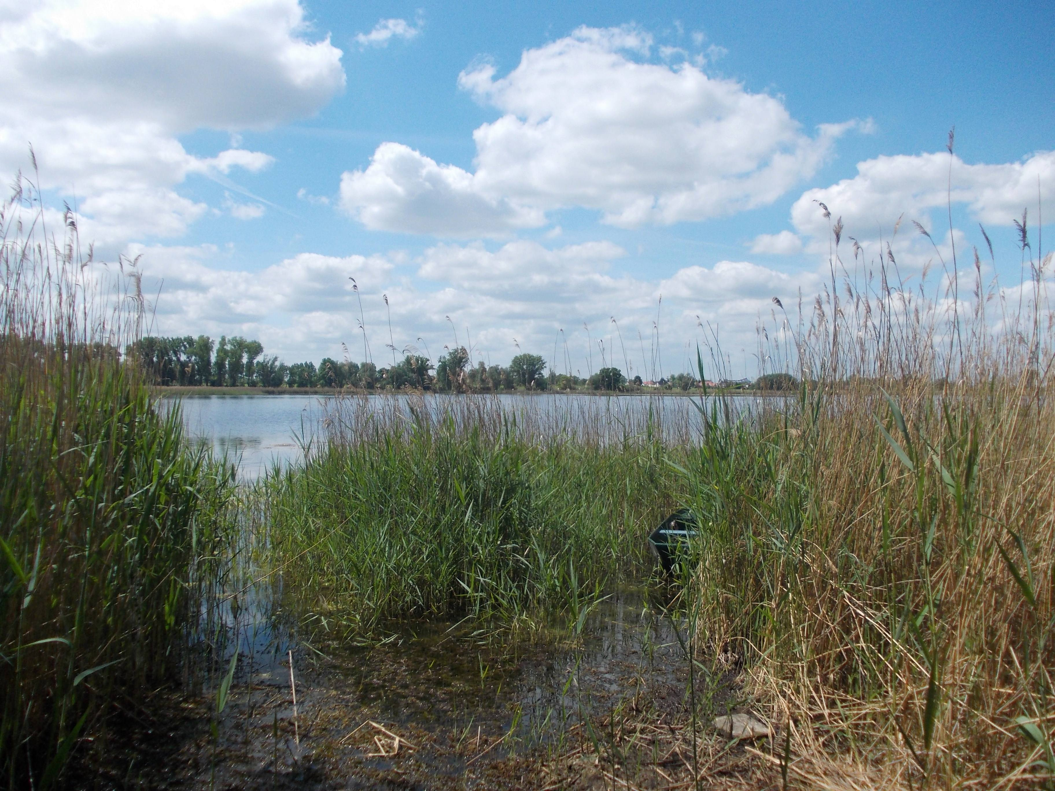 Grosser Wiendorfer Teich in the Gerlebogk Ponds nature reserve (Könnern, district: Salzlandkreis, Saxony-Anhalt)